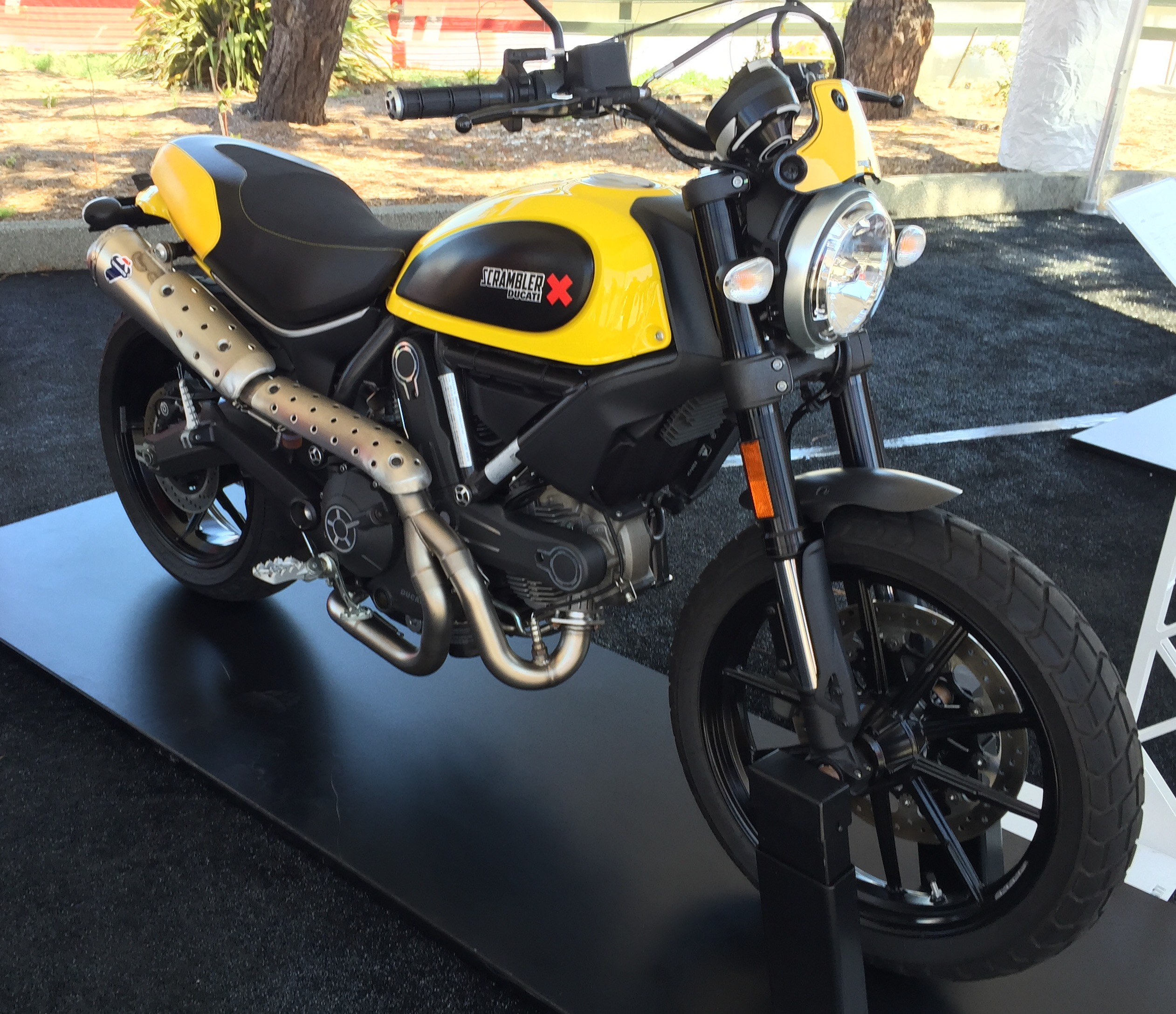 SBK FIM Superbike World Championship 2015